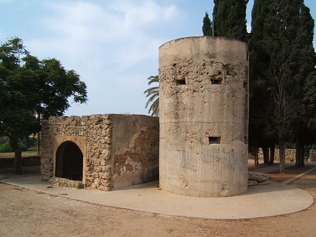 The Pillbox on the top of Tel Giborim in Holon, a battle site during the Israel independence war.